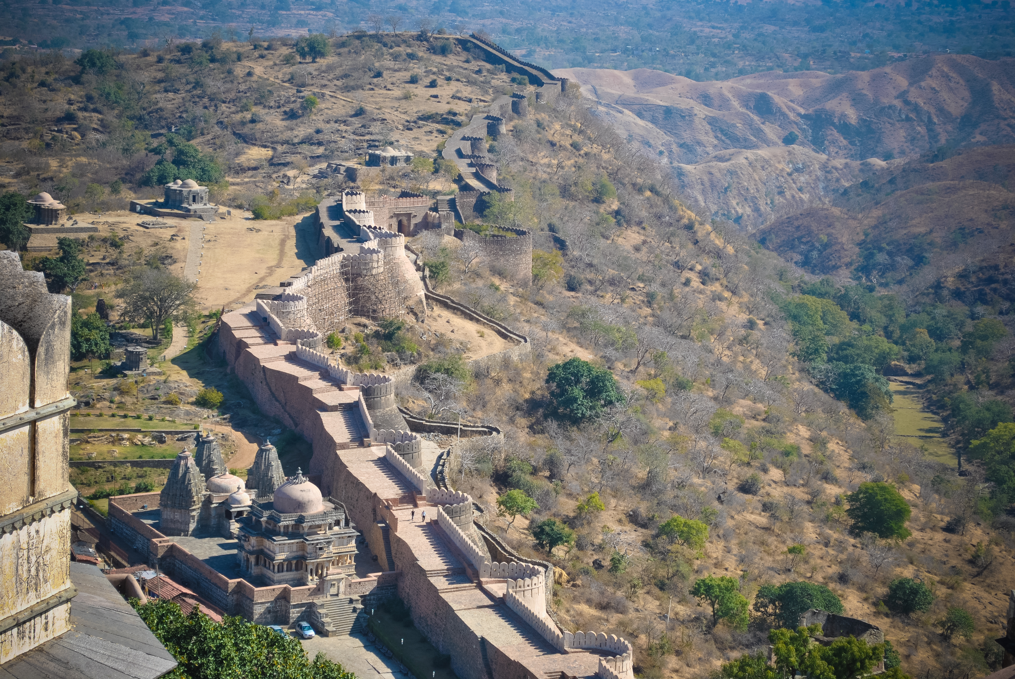 Rajasthan-Kumbhalgarh